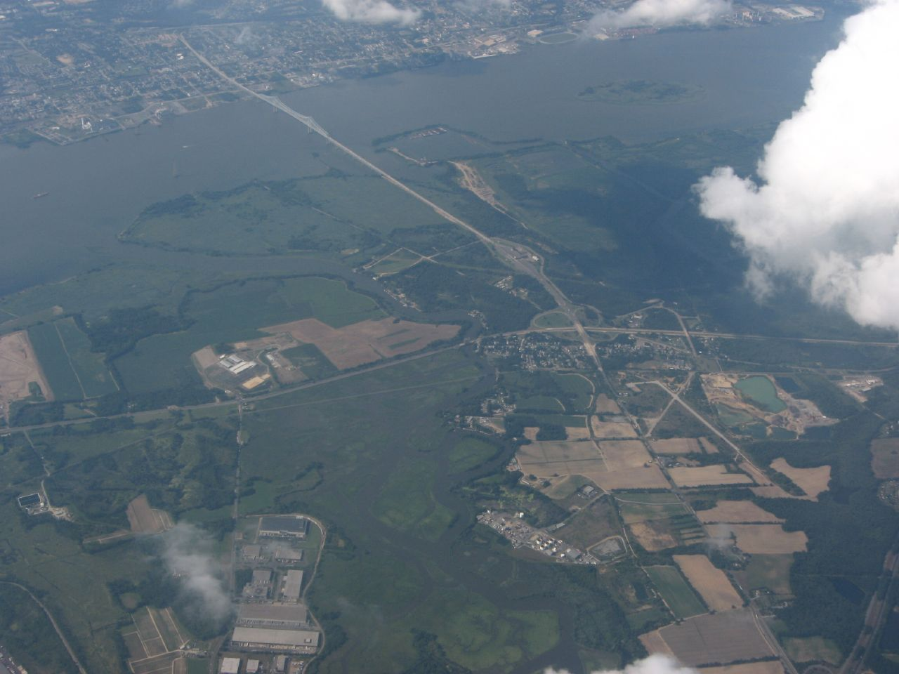 Bridgeport is an unincorporated community within Logan Township, Gloucester County, New Jersey, United States. Bridgeport, along with Swedesboro, was one of only two settlements established in New Jersey as a part of the New Sweden colony, the fort at Nya Elfsborg having been abandoned. It was originally called New Stockholm, but the name was changed at a later date. The Commodore Barry Bridge spanning the Delaware River is seen in the top portion of the photo.